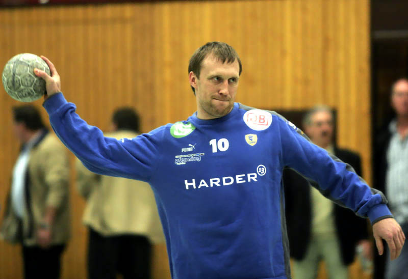 Oleg Velyky, on November 28th 2006 in the Weststadt Hall in Bensheim (Germany), during the warm up, prior the game Rhein-Neckar Löwen - TuS Nettelstedt-Lübbecke.